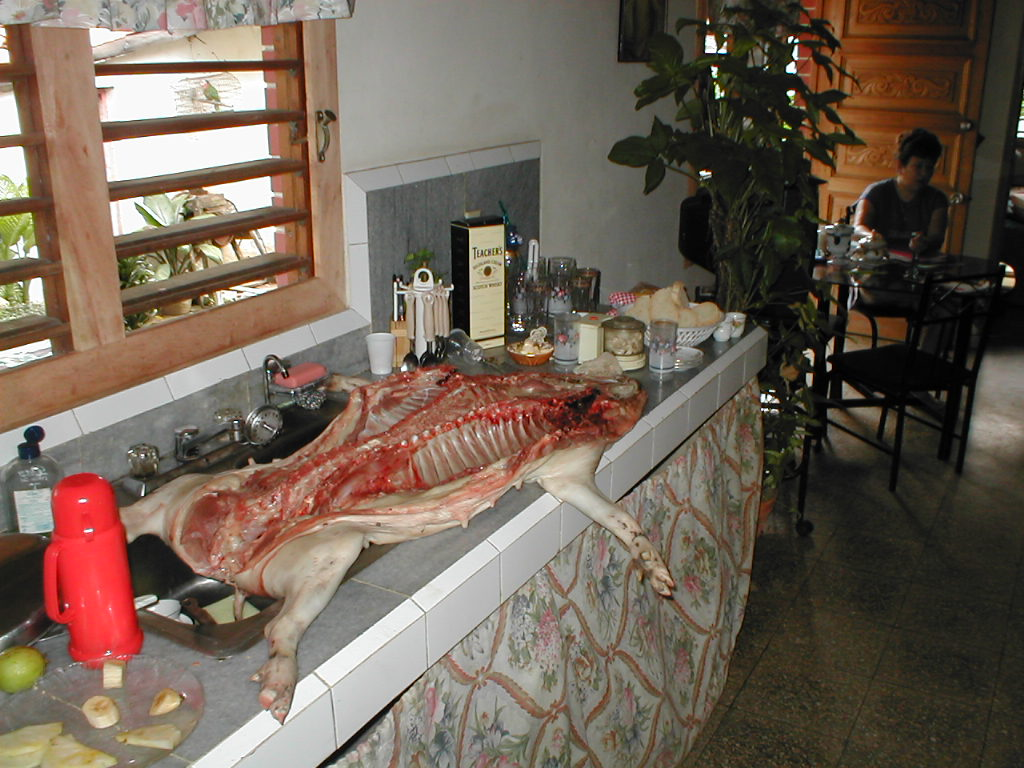 The author of this photo is me, David ShankboneTaken October 2002. With limited access to beef and poultry, pigs form a staple of the diet. In this photo, the matron of a local Casas Particular in Vinales prepares a feast for a special family occasion the old-fashioned way.